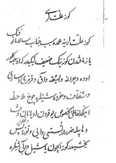 Work of famous Azerbaijani poet and teacher Hasanaliaga Garadagli